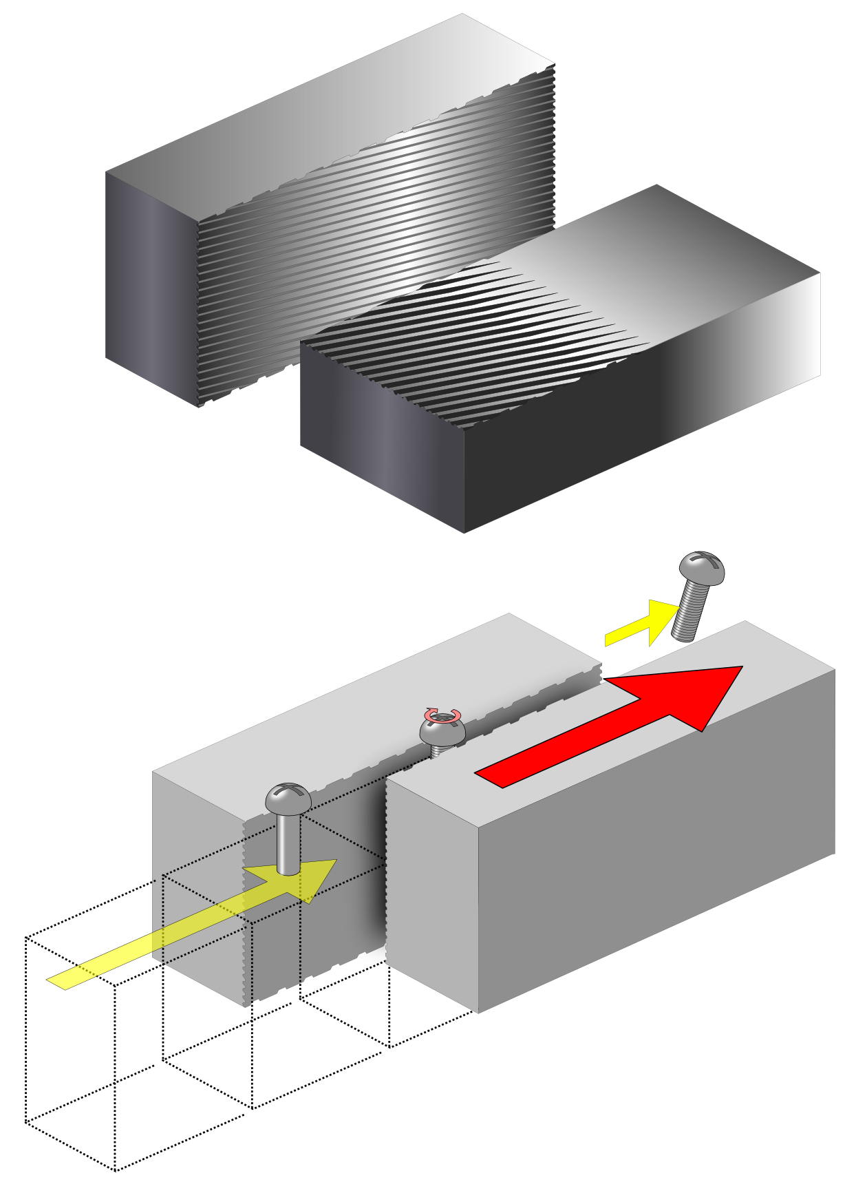 Screw (bolt) 14-n